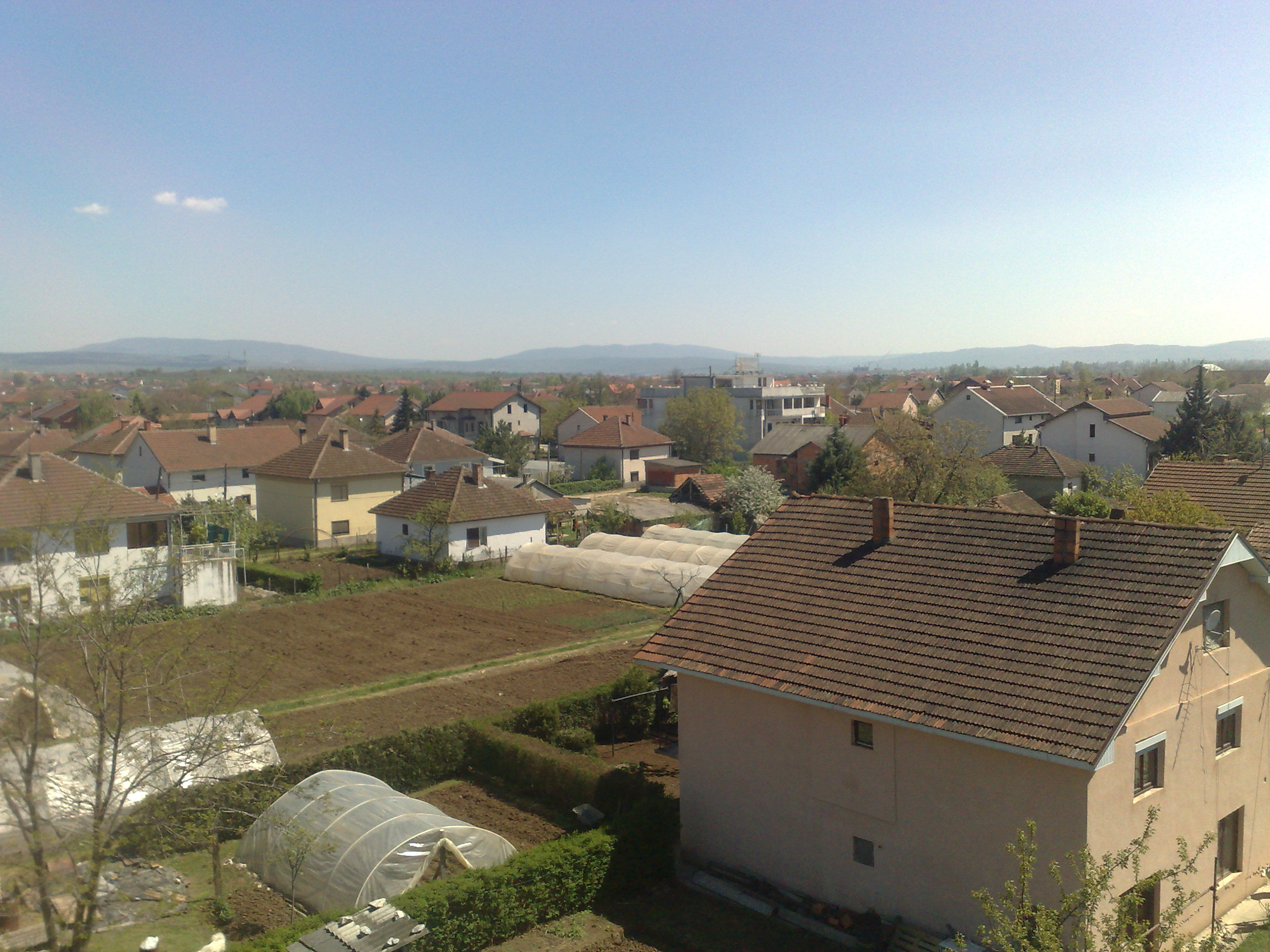 Ilinden, Skopje, Macedonia